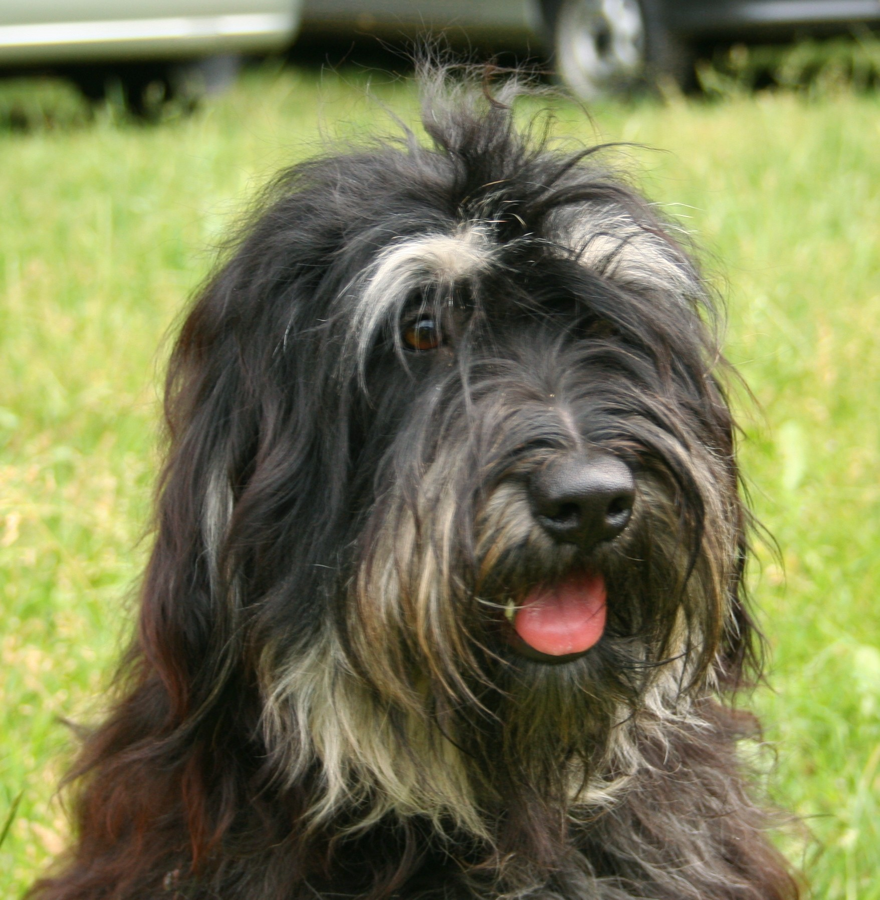 Portuguese Sheepdog during dog's show in Racibórz, Poland